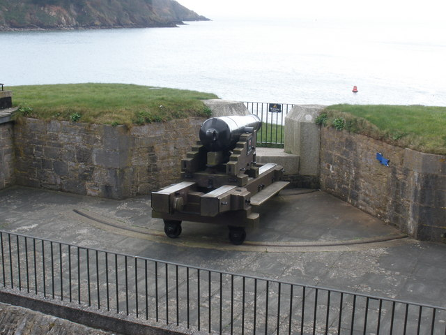 64 Pounder Rifled Muzzle Loading (RML) gun, guarding the entrance to Dartmouth harbour